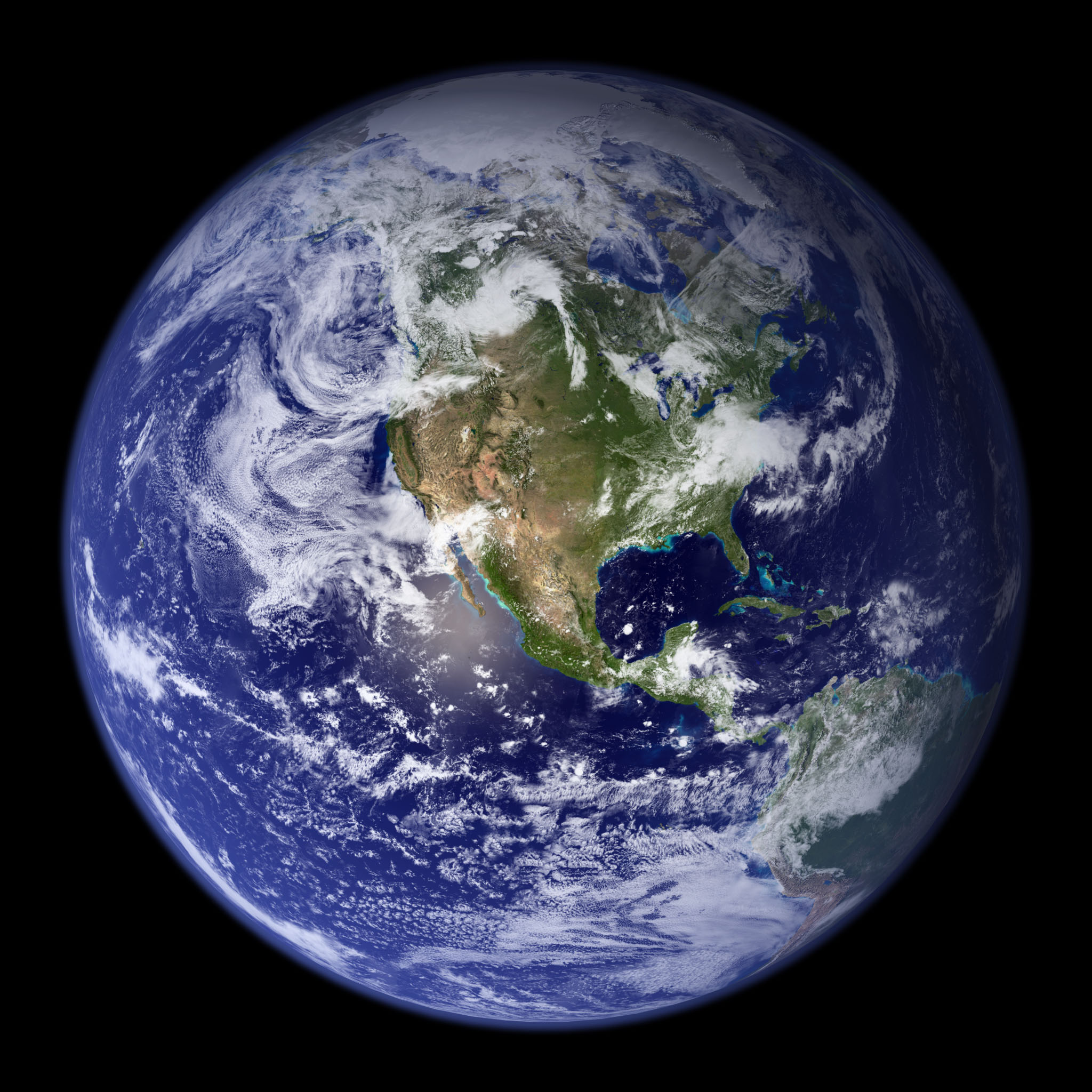 This spectacular “blue marble” image is the most detailed true-color image of the entire Earth to date. Using a collection of satellite-based observations, scientists and visualizers stitched together months of observations of the land surface, oceans, sea ice, and clouds into a seamless, true-color mosaic of every square kilometer (.386 square mile) of our planet. These images are freely available to educators, scientists, museums, and the public. This record includes preview images and links to full resolution versions up to 21,600 pixels across. Much of the information contained in this image came from a single remote-sensing device-NASA’s Moderate Resolution Imaging Spectroradiometer, or MODIS. Flying over 700 km above the Earth onboard the Terra satellite, MODIS provides an integrated tool for observing a variety of terrestrial, oceanic, and atmospheric features of the Earth. The land and coastal ocean portions of these images are based on surface observations collected from June through September 2001 and combined, or composited, every eight days to compensate for clouds that might block the sensor’s view of the surface on any single day. Two different types of ocean data were used in these images: shallow water true color data, and global ocean color (or chlorophyll) data. Topographic shading is based on the GTOPO 30 elevation dataset compiled by the U.S. Geological Survey’s EROS Data Center. MODIS observations of polar sea ice were combined with observations of Antarctica made by the National Oceanic and Atmospheric Administration’s AVHRR sensor—the Advanced Very High Resolution Radiometer. The cloud image is a composite of two days of imagery collected in visible light wavelengths and a third day of thermal infra-red imagery over the poles. Global city lights, derived from 9 months of observations from the Defense Meteorological Satellite Program, are superimposed on a darkened land surface map.